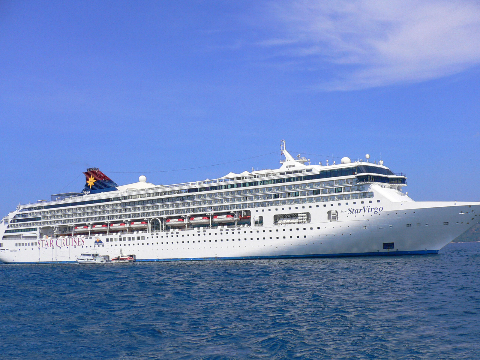 SuperStar Virgo at the waters of Patong Beach, Phuket, Thailand.